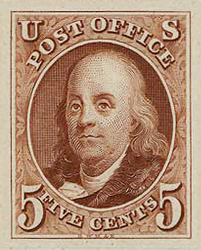 The first U.S. postage stamp: Ben Franklin (Red Brown) 5 Cents (Scott #1) U.S. Post Office, 1847